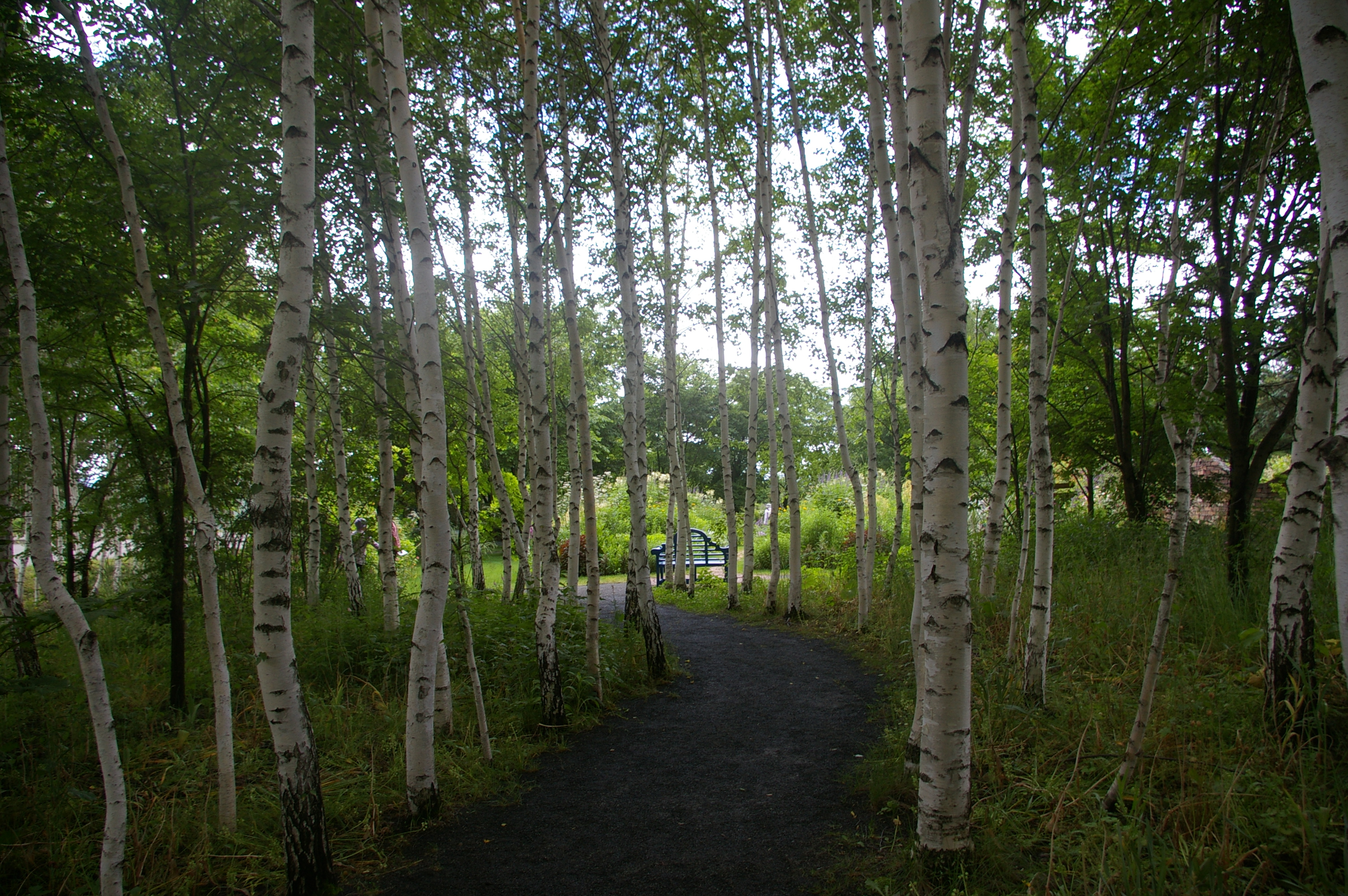 Ueno Farm in Asahikawa city, Hokkaido Japan